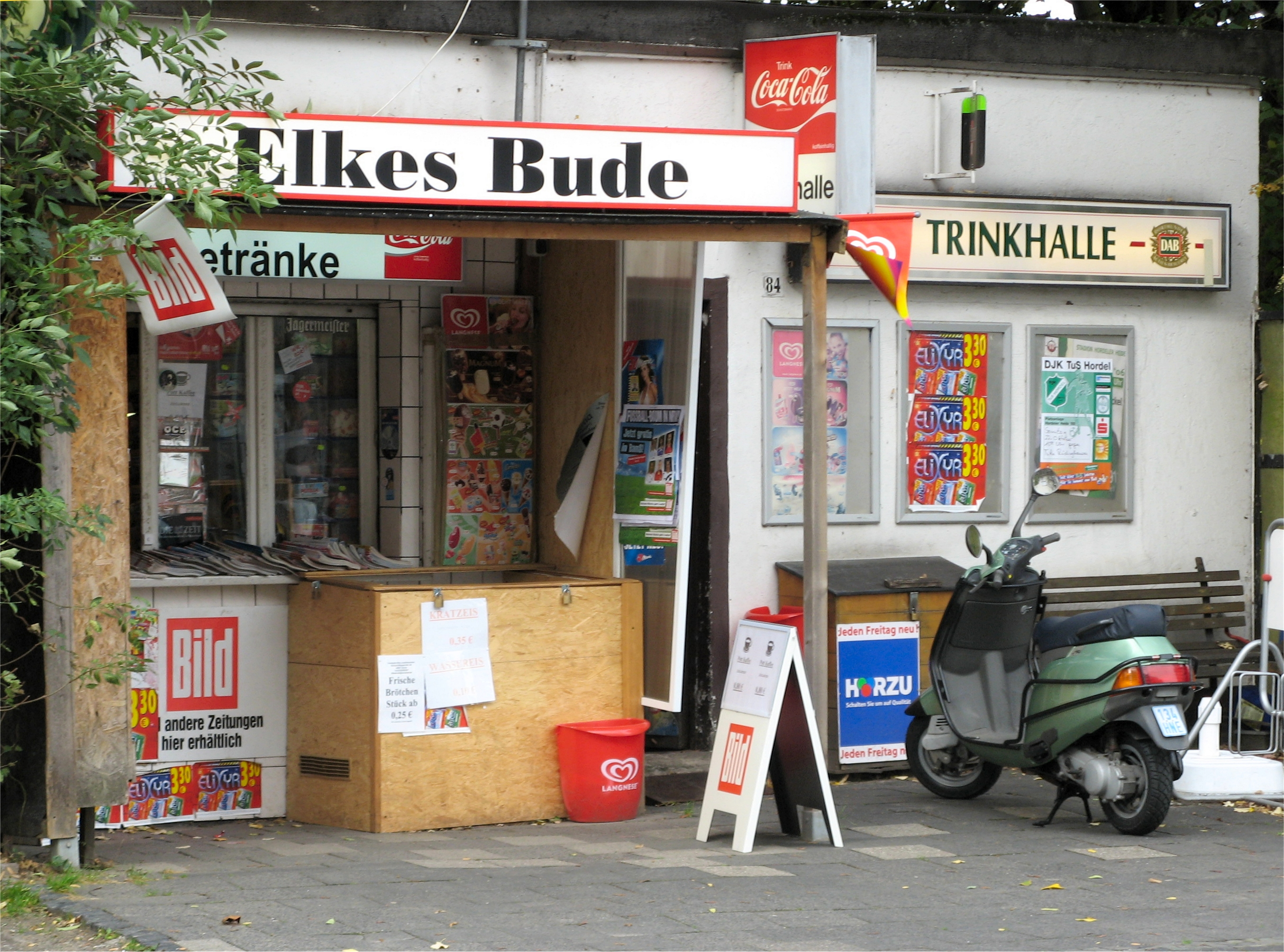 Eine Trinkhalle, oder im Ruhrdeutsch 'die Bude' ist geradezu typisch für's Revier Refreshment stands, or in local dialect 'Bude', are characteristic of the Ruhr Region. Opened till late in the night and even on sundays they are a communication spot, meeting point in the neighbourhood and supplier of all those little things you forgot to buy in time.